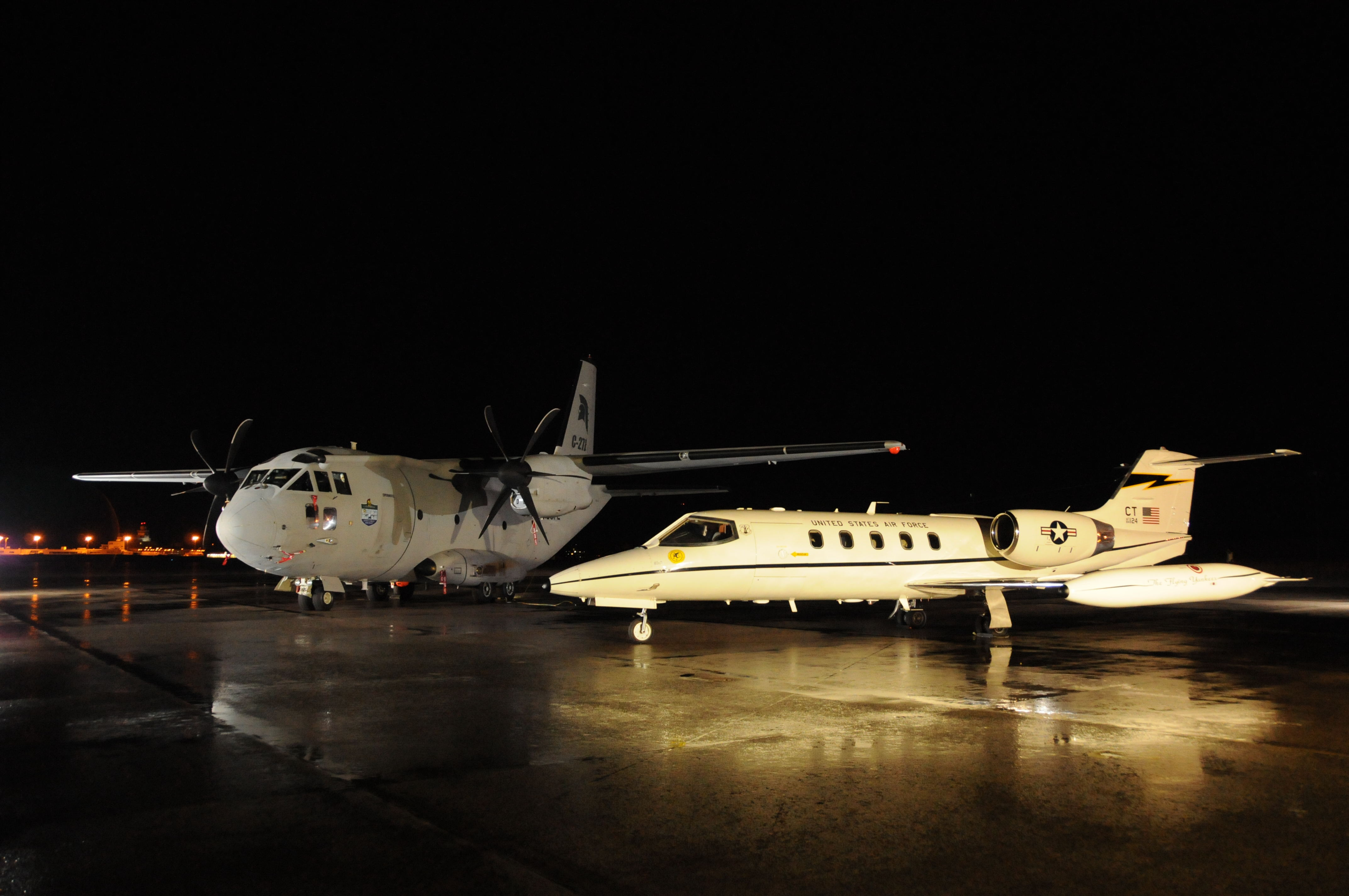 An Alenia C-27J Spartan is parked on the ramp during a familiarization visit to the Bradley Air National Guard Base in East Granby, Connecticut (USA), on 21 October 2010. The "Flying Yankees" of the 118th Airlift Squadron, 103rd Airlift Wing, Connecticut Air National Guard, will convert to the C-27J in 2014. In front is a 118th AS Gates Learjet C-21A (s/n 84-0124).